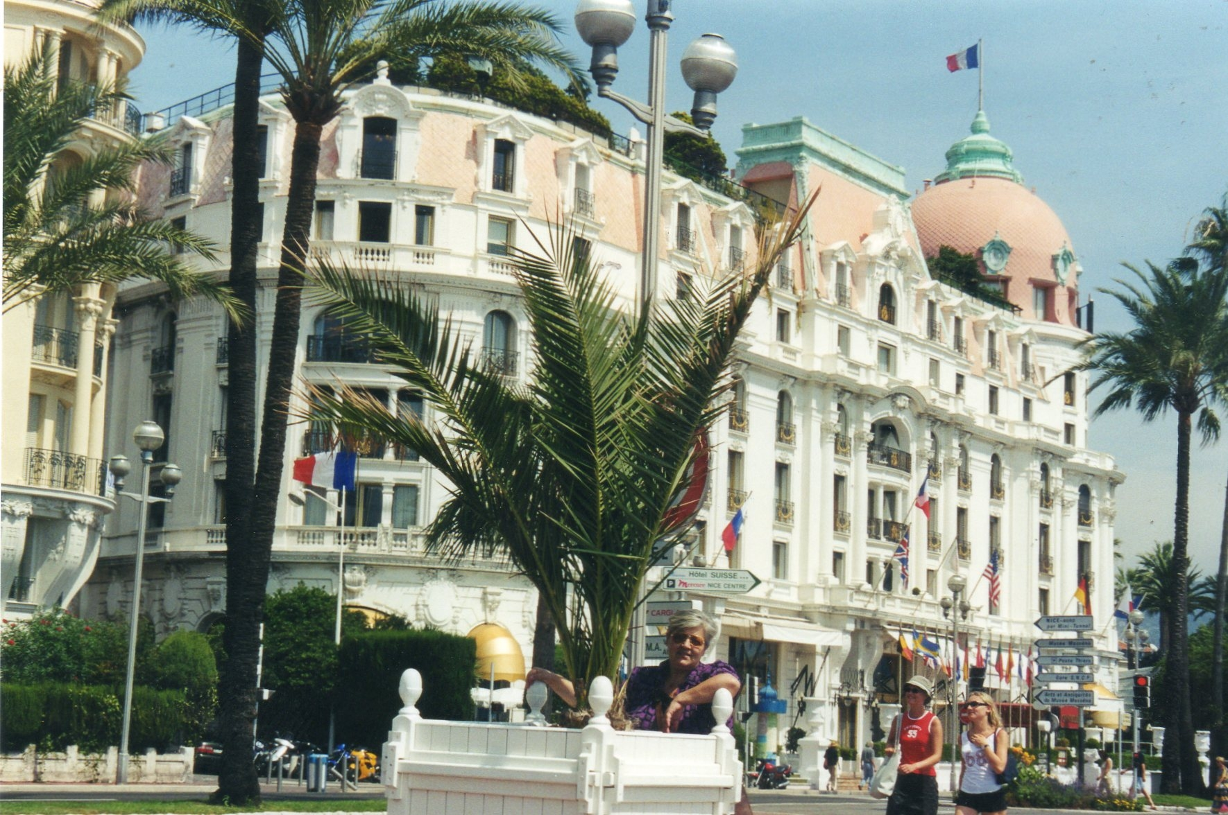 Negresco Hotel, Nice, France